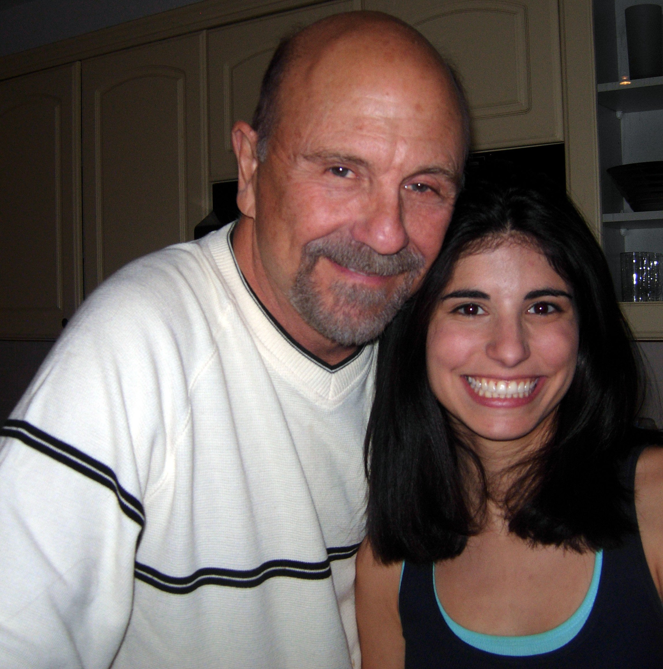 Orestes Matacena with Romina Espinosa in January 2009